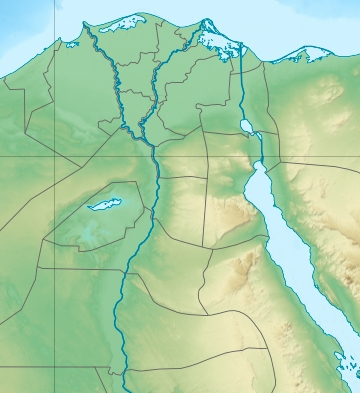 Physical location map of Egypt. Showing new governorate boundaries since 14 April 2011, after the dissolution of the 6th of October and Helwan Governorates. Also showing the Libyan Desert and its northern Qattara Depression, and the northern Eastern Desert.